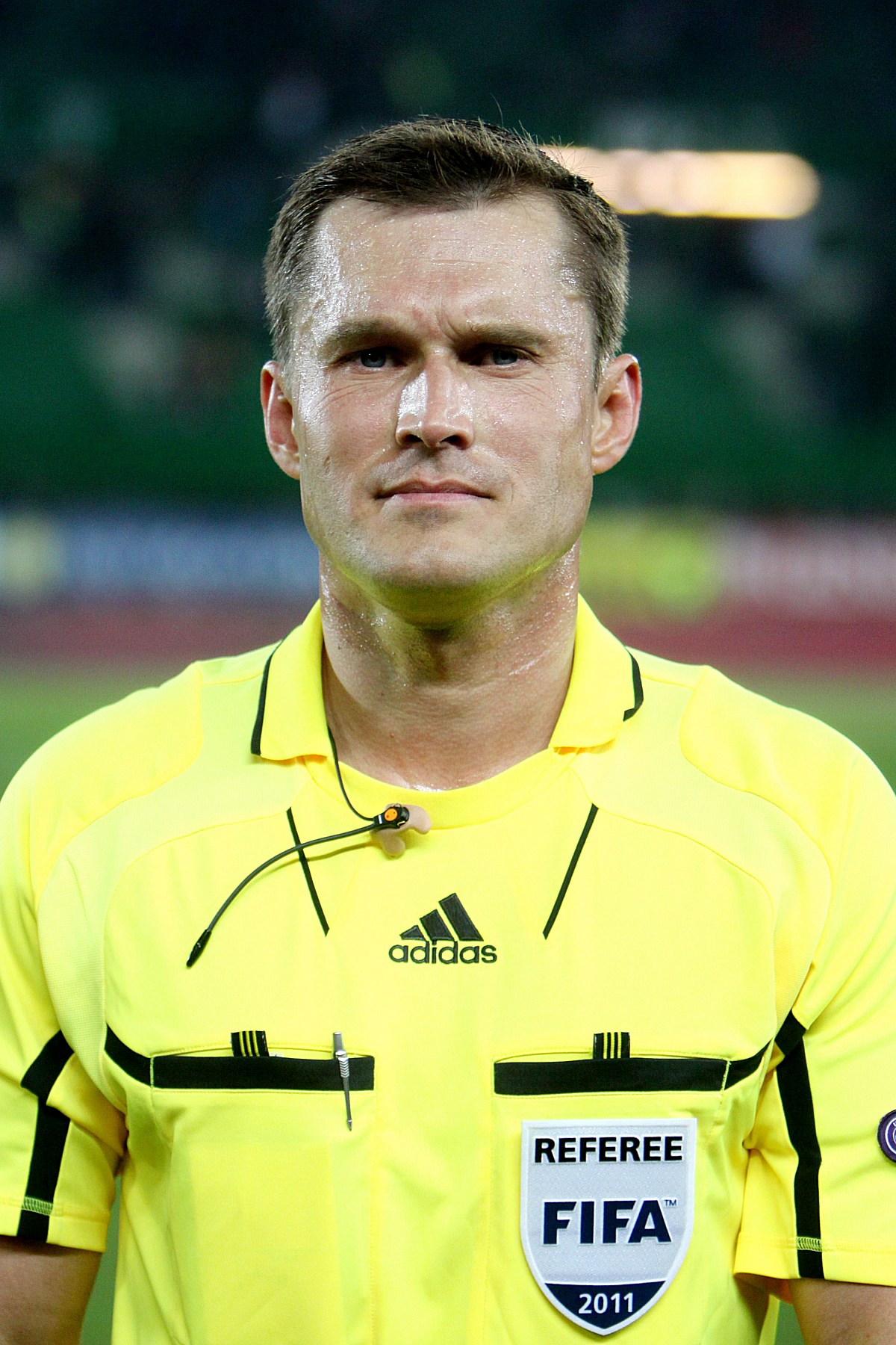 Vladislav Bezborodov - FIFA-Referee of Russia